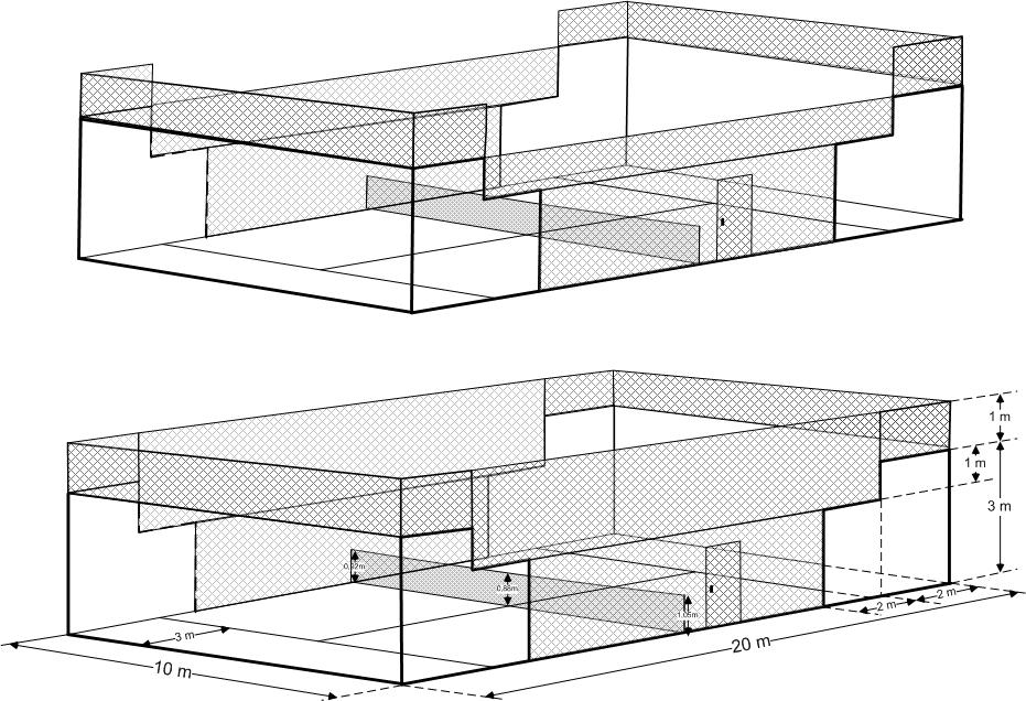 It shows the two possible version of a Pádel playing field.